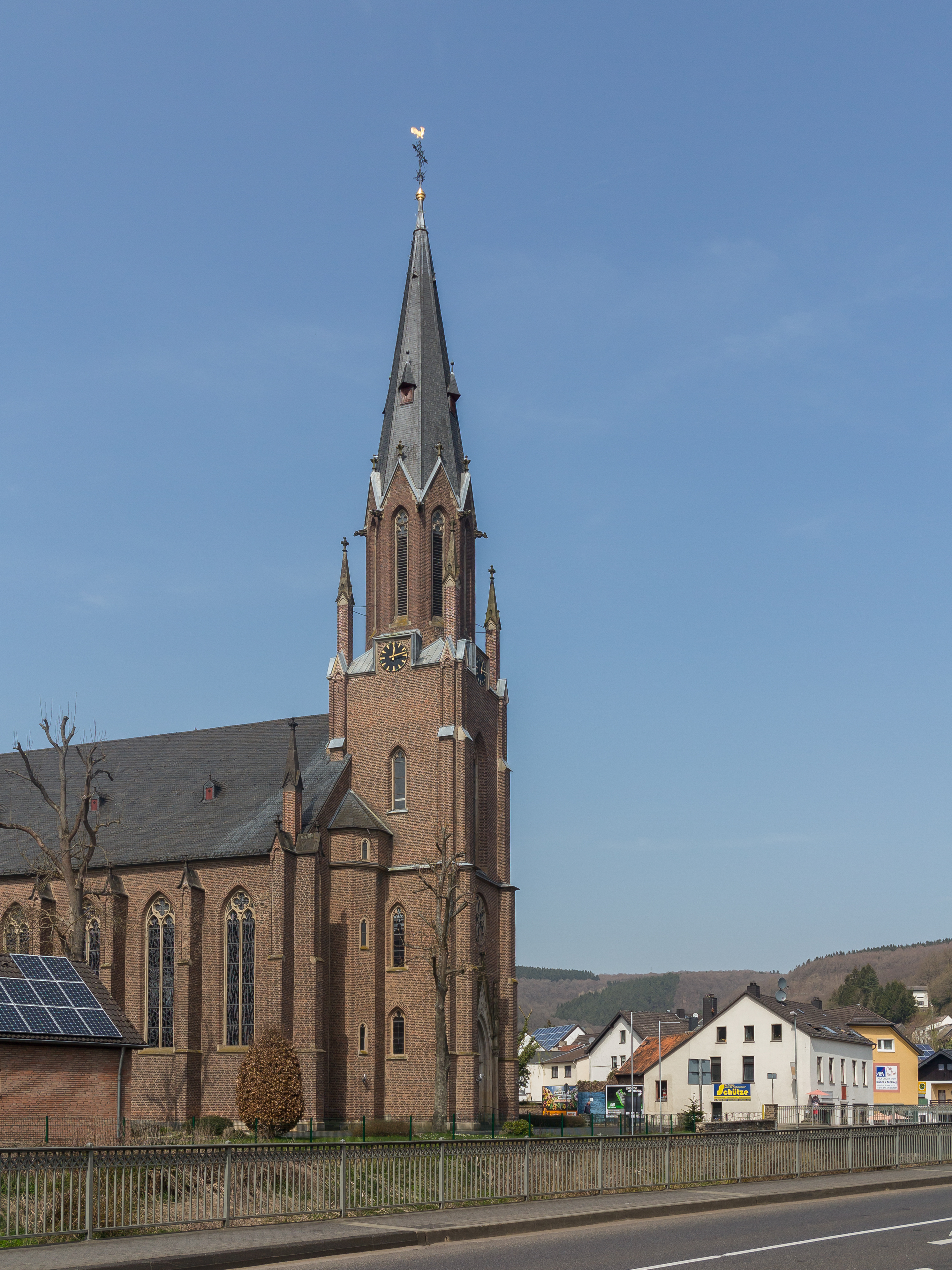 Gemünd, church; Kirche Sankt NikolausThis is a photograph of an architectural monument., no. 75